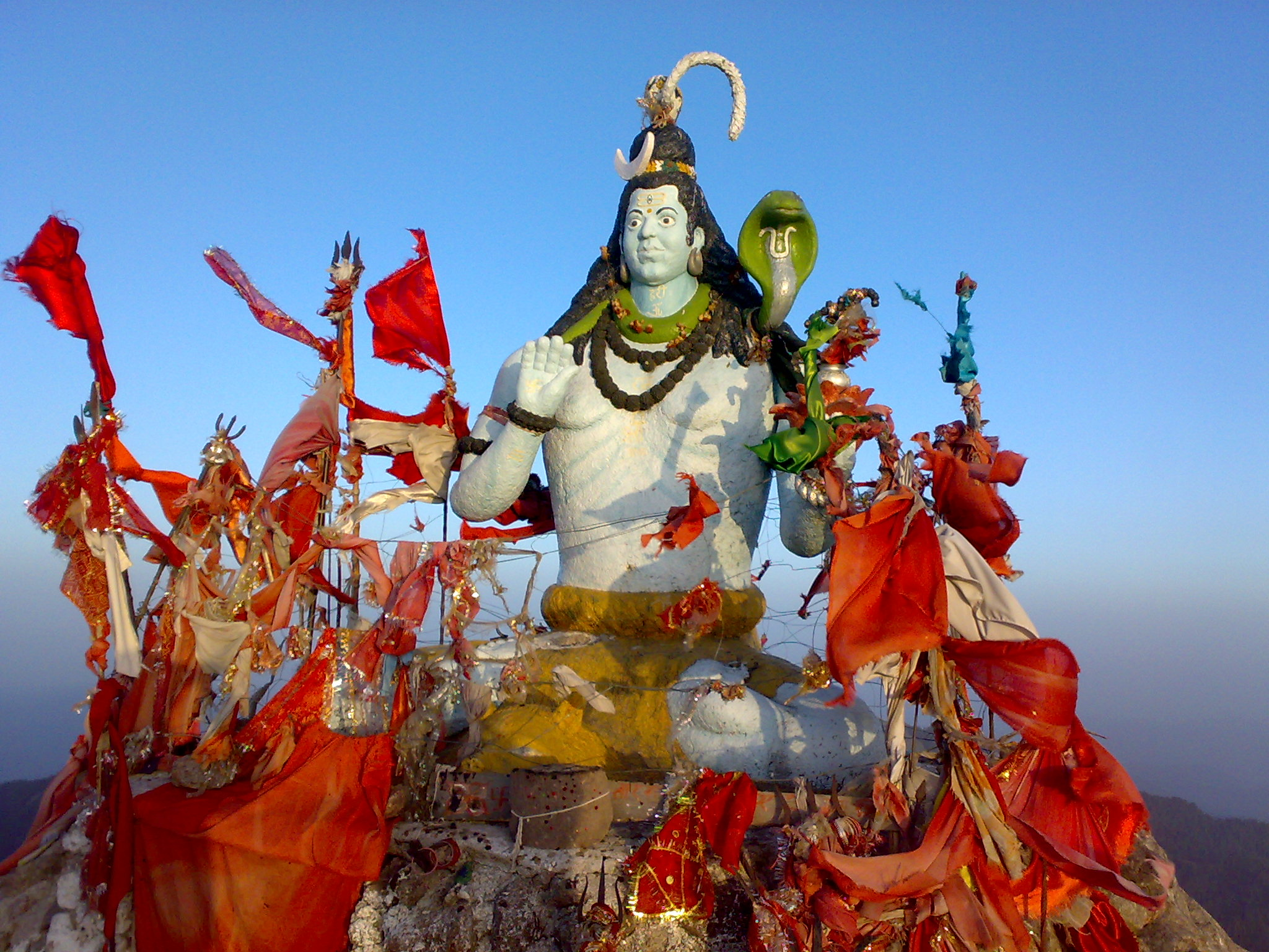 Churdhar peak, which has an elevation of 3647 metres above sea level and is located in Sirmour district of the indian state of Himachal Pradesh